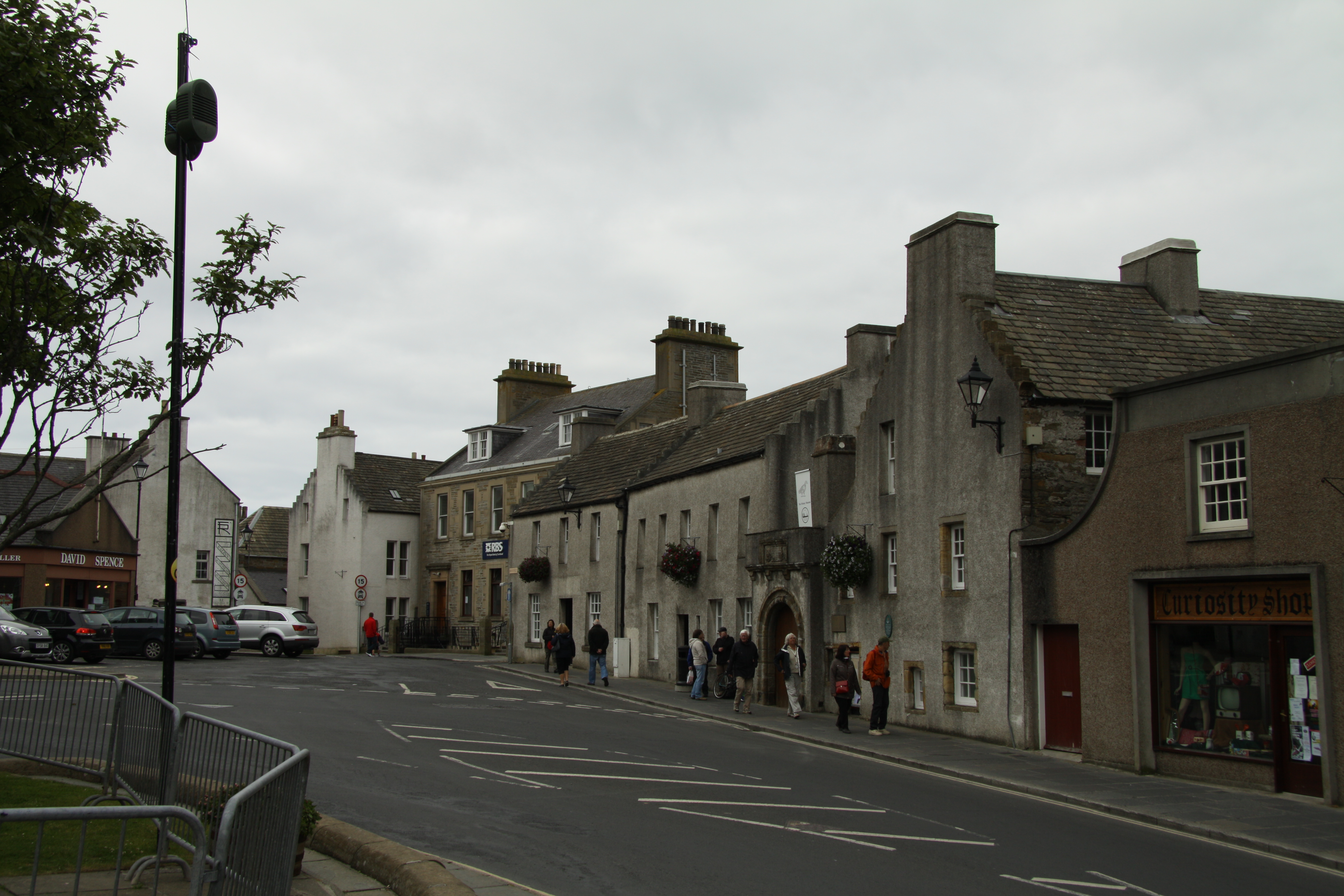 Broad road in Kirkwall, Orkney in Scotland overlooking Eynhallow Sound.